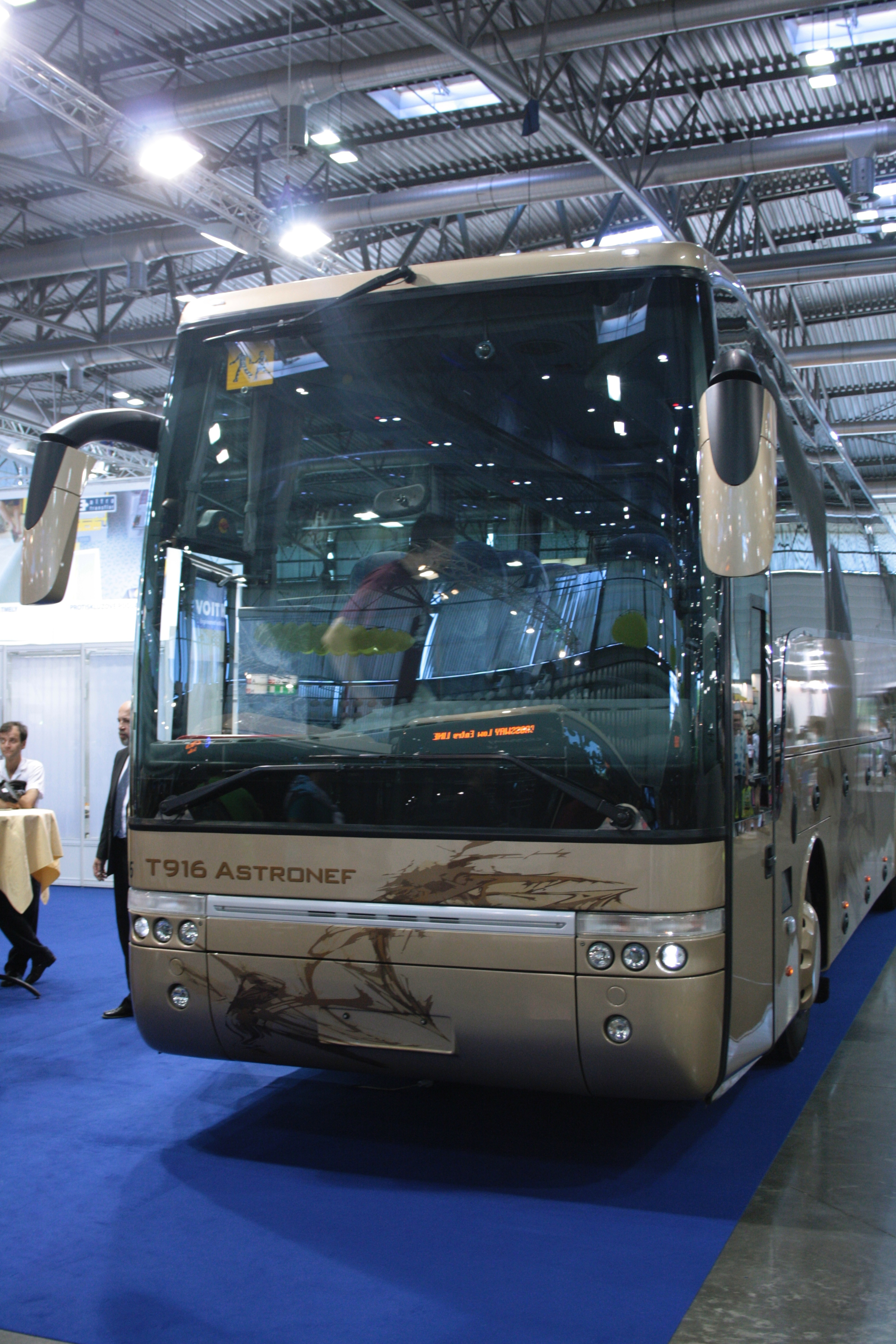 Van Hool T916 Astronef liner on Autotec 2010 exhibition in Brno, Czech Republic. This photograph was taken with a DSLR from WMCZ's Camera grant.